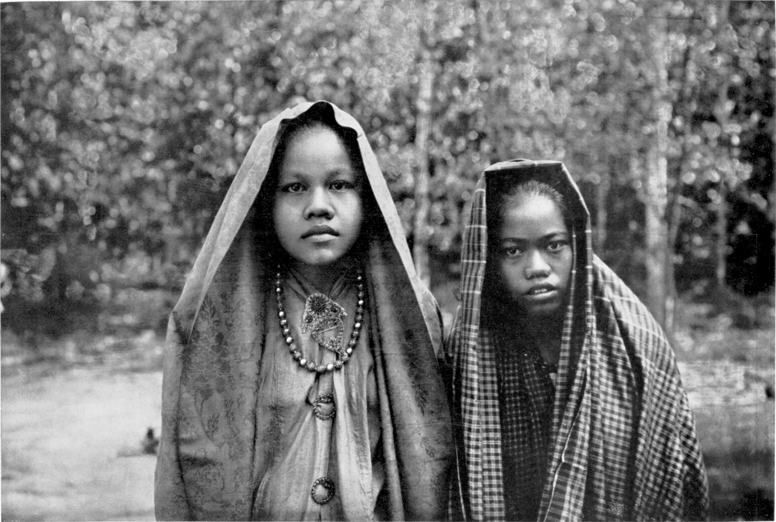 Malay women, Sumatra.The Malays, widely spread över nearly all Indonesia, are mest strongly established in Sumatra. In physique short, spare, wiry and muscular, with small hands and feet, the Malay gives an impression of suppleness and hardiness. He is intelligent, active, industrious, capable of strong devotion and still stronger hatred, and has the character of being cunning, susceptible, vindictive and treacherous.